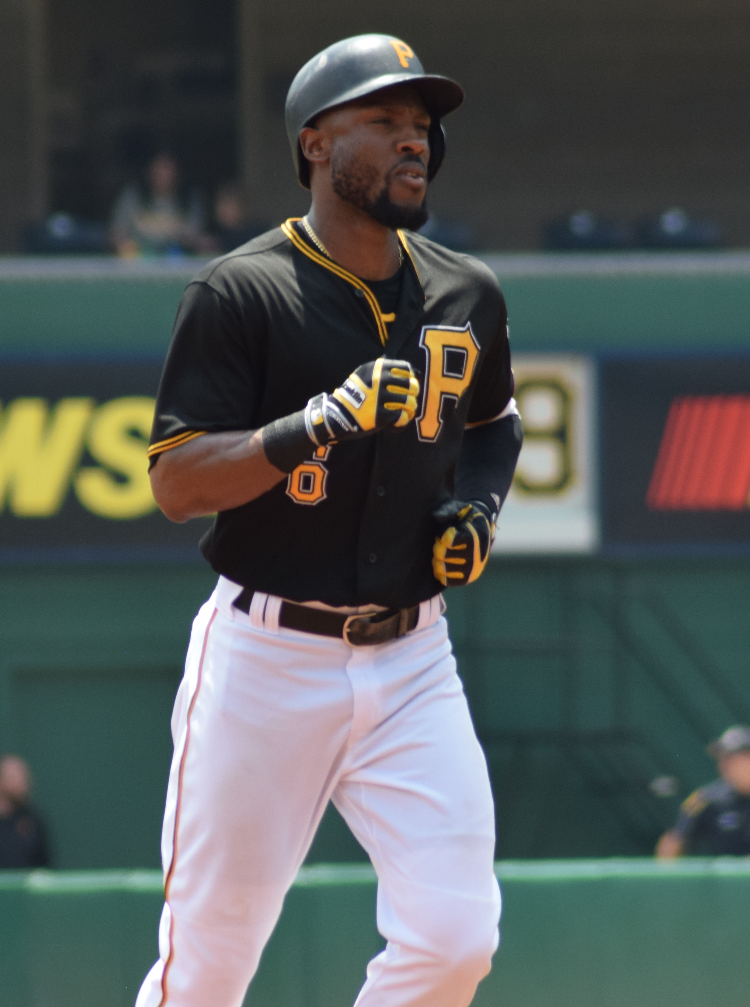 Pirates outfielder Starling Marte